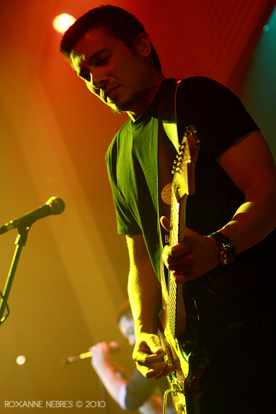 Rock Overload Festival feat. Bamboo, PNE, and Kamikazee April 16, 2010